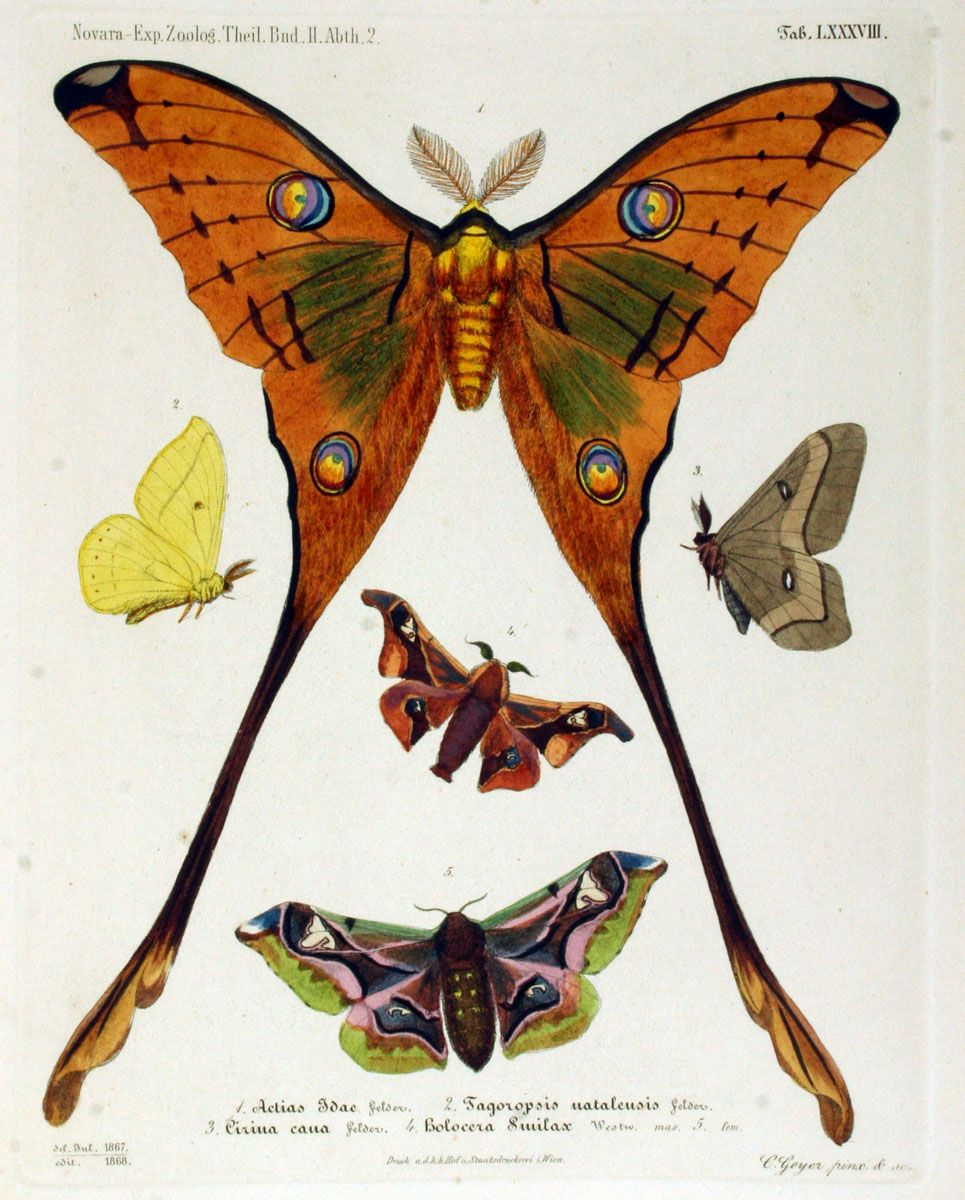 As file